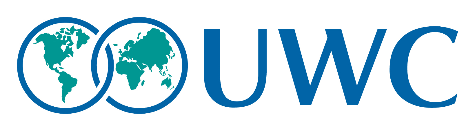 UWC new logo